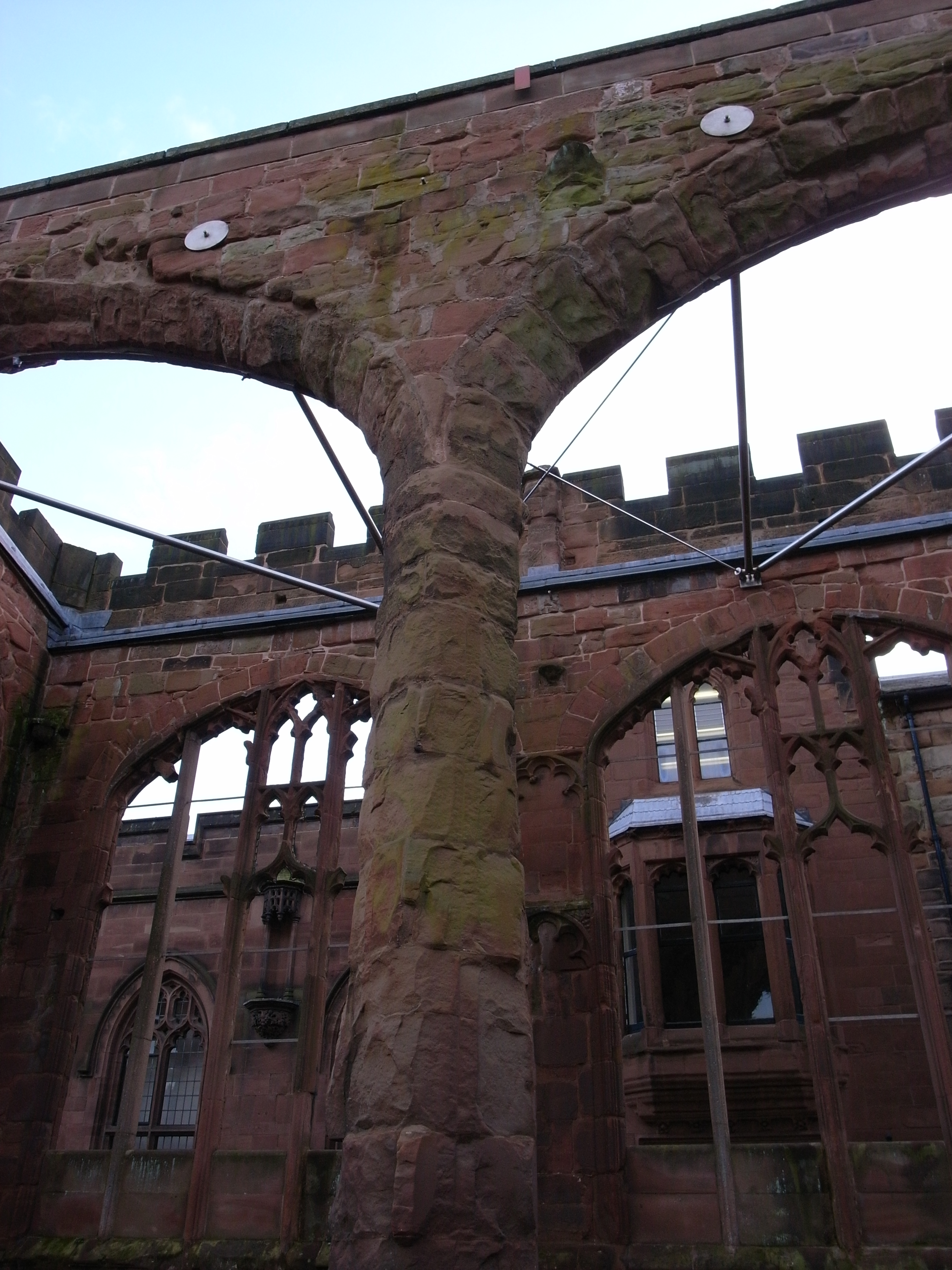 Part of an arcade of the ruin of Coventry Cathedral, showing reinforcing tie rods and anchor plates